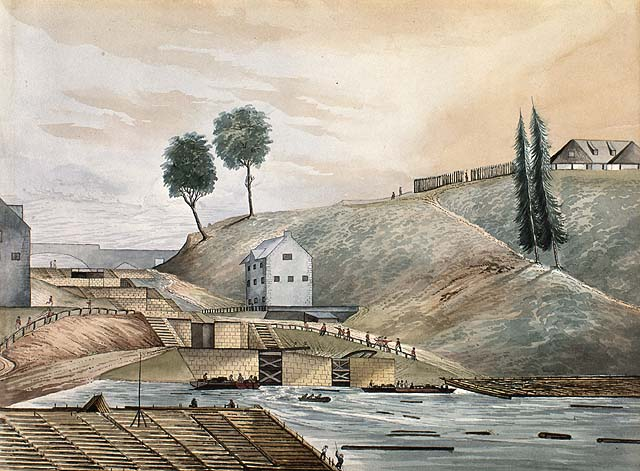 The Rideau Canal where it meets the Ottawa River.